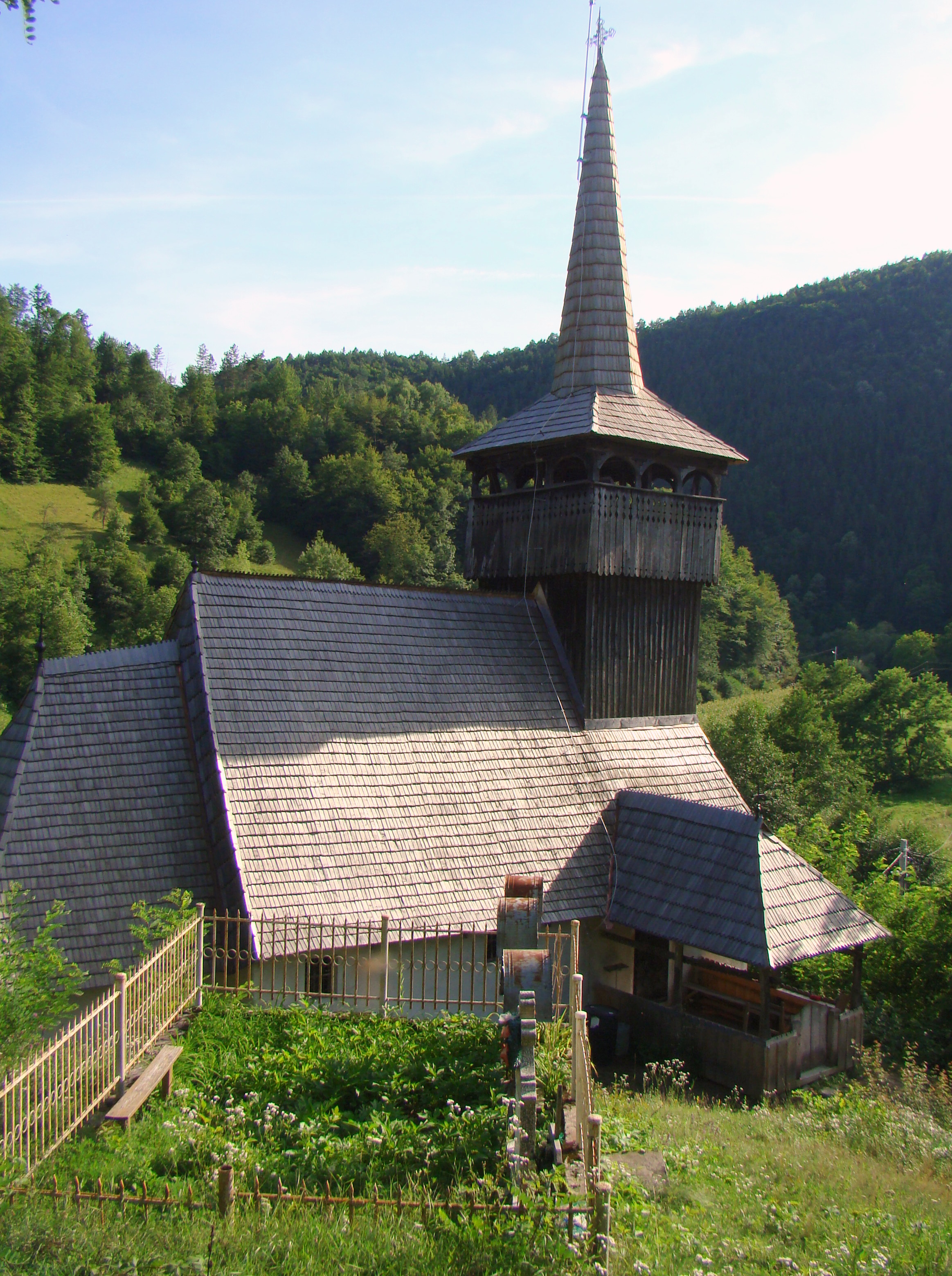 Wooden church in Ribicioara, Hunedoara county, Romania